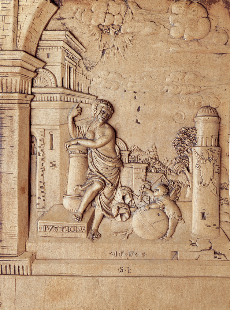 Sebastian Loscher: Symbolic representation of the earthly and the divine justice, 1536, boxwood Kaiser-Friedrich-Museums-Verein (Inv. M 83, acquired in 1906), on permanent loan to the Skulpturensammlung, Bode-Museum Berlin